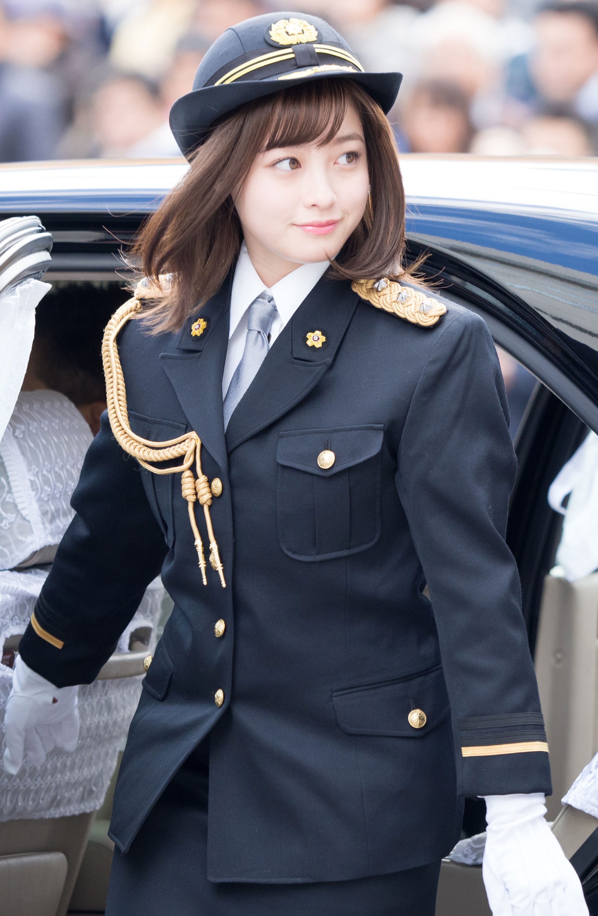 Kanna Hashimoto appointed as one day police chief